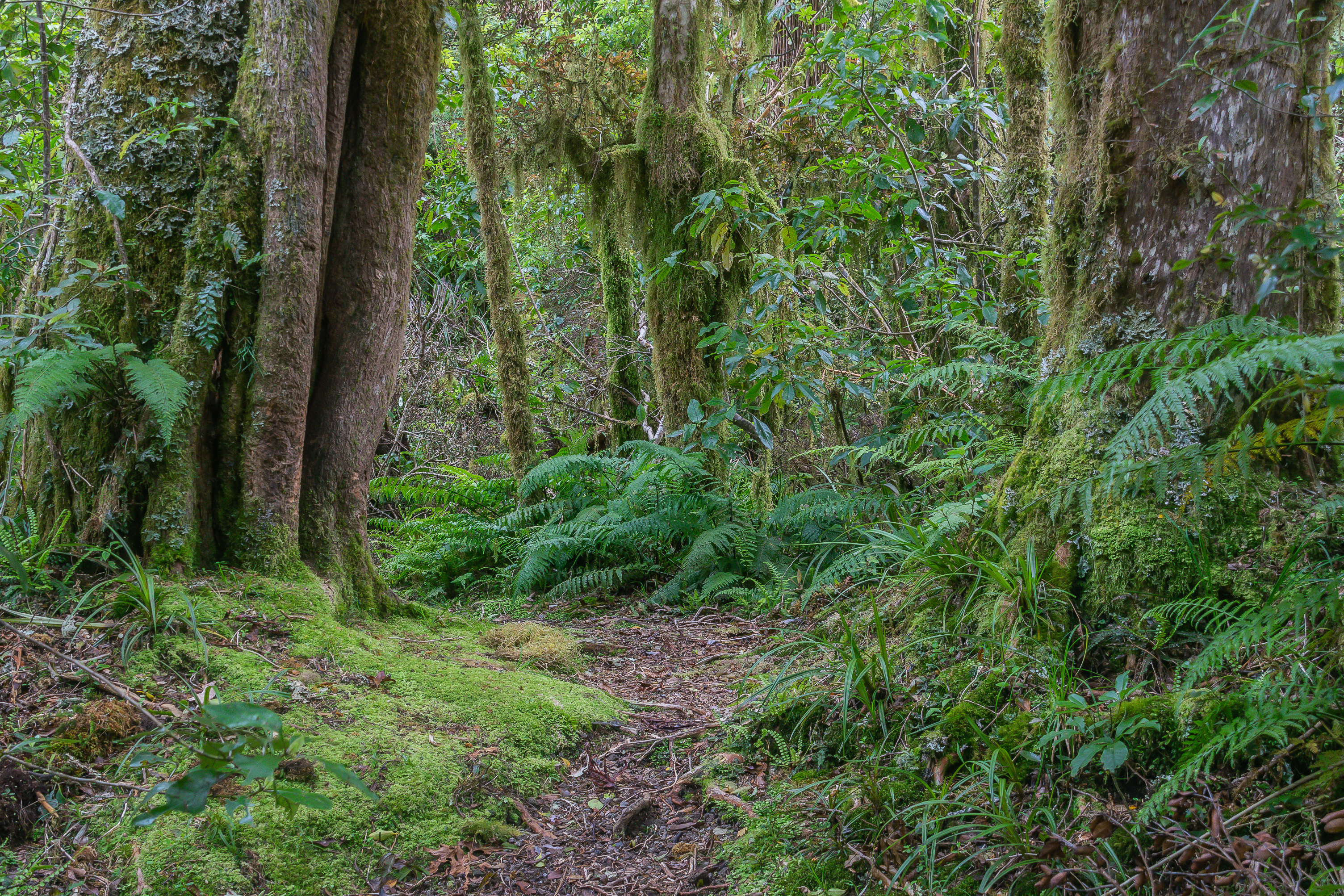 Footpath in Egmont National Park in Taranaki Region, North Island of New Zealand